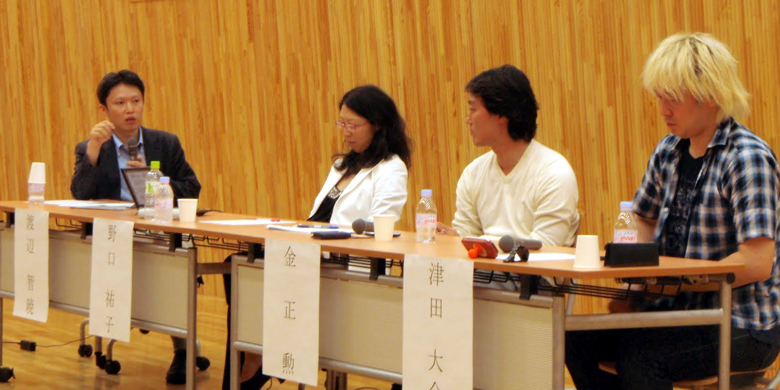 Daisuke Tsuda, President of the Movements for Internet Active Users, Kim Jung-Hoon, Project Associate Professor of the Graduate School of Media and Governance, Keio University, Yūko Noguchi, Partner of Mori Hamada & Matsumoto, and Tomoaki Watanabe, Senior Research Fellow of the Center for Global Communications, International University of Japan, attended a symposium at Fukutake Hall, University of Tokyo in Bunkyō Ward, Tōkyō Metropolis on August 11, 2010.